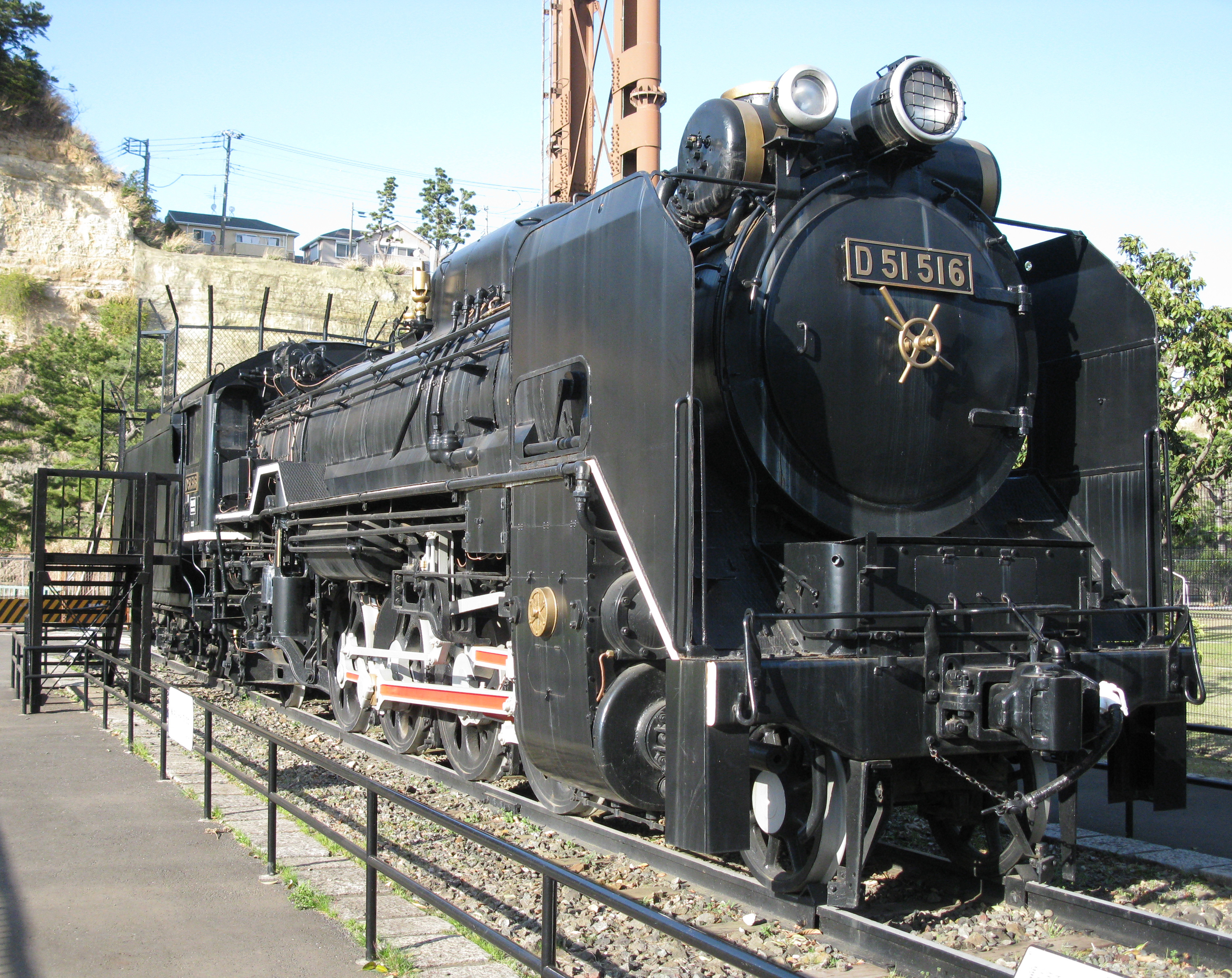 JNR Steam Locomotive Class D51 no.516 (Naka-ku, Yokohama, Kanagawa prefecture, Japan)